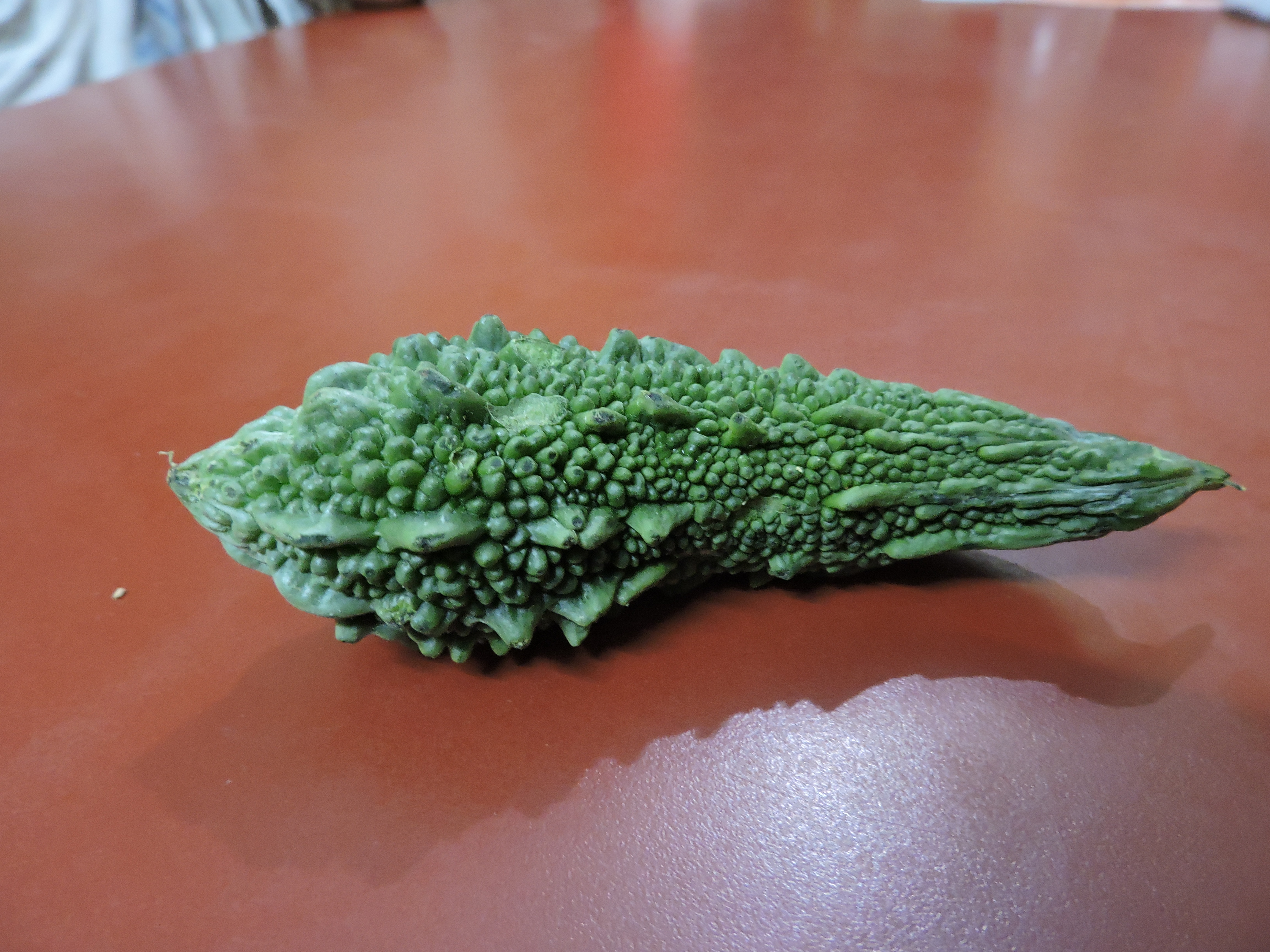 A close up view of an Indian bittergourd.